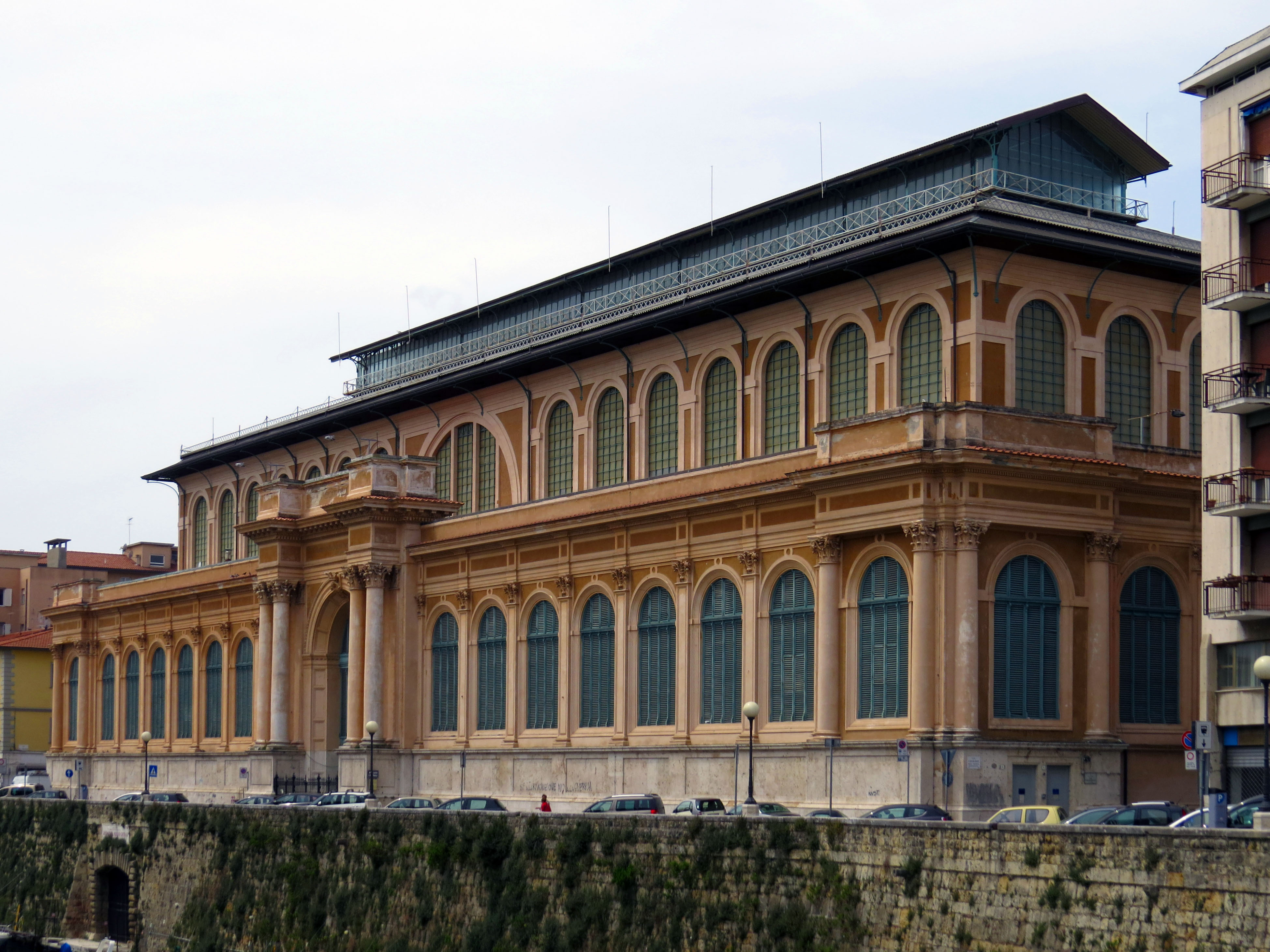 Mercato delle vettovaglie, scali Aurelio Saffi, Livorno